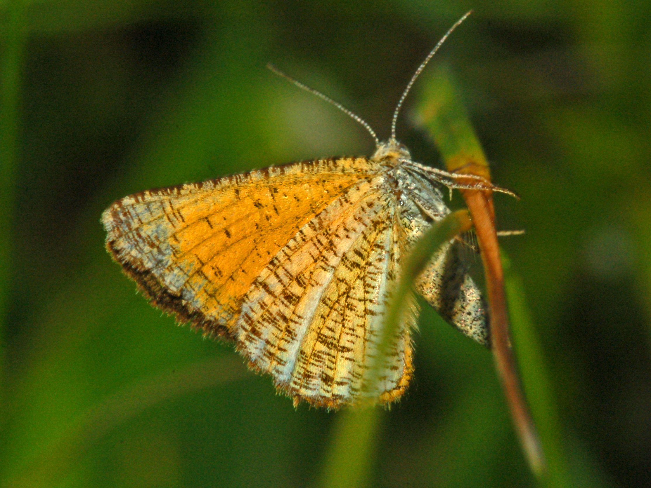 Female of Isturgia limbaria. Piani di Praglia, Genova, Italy